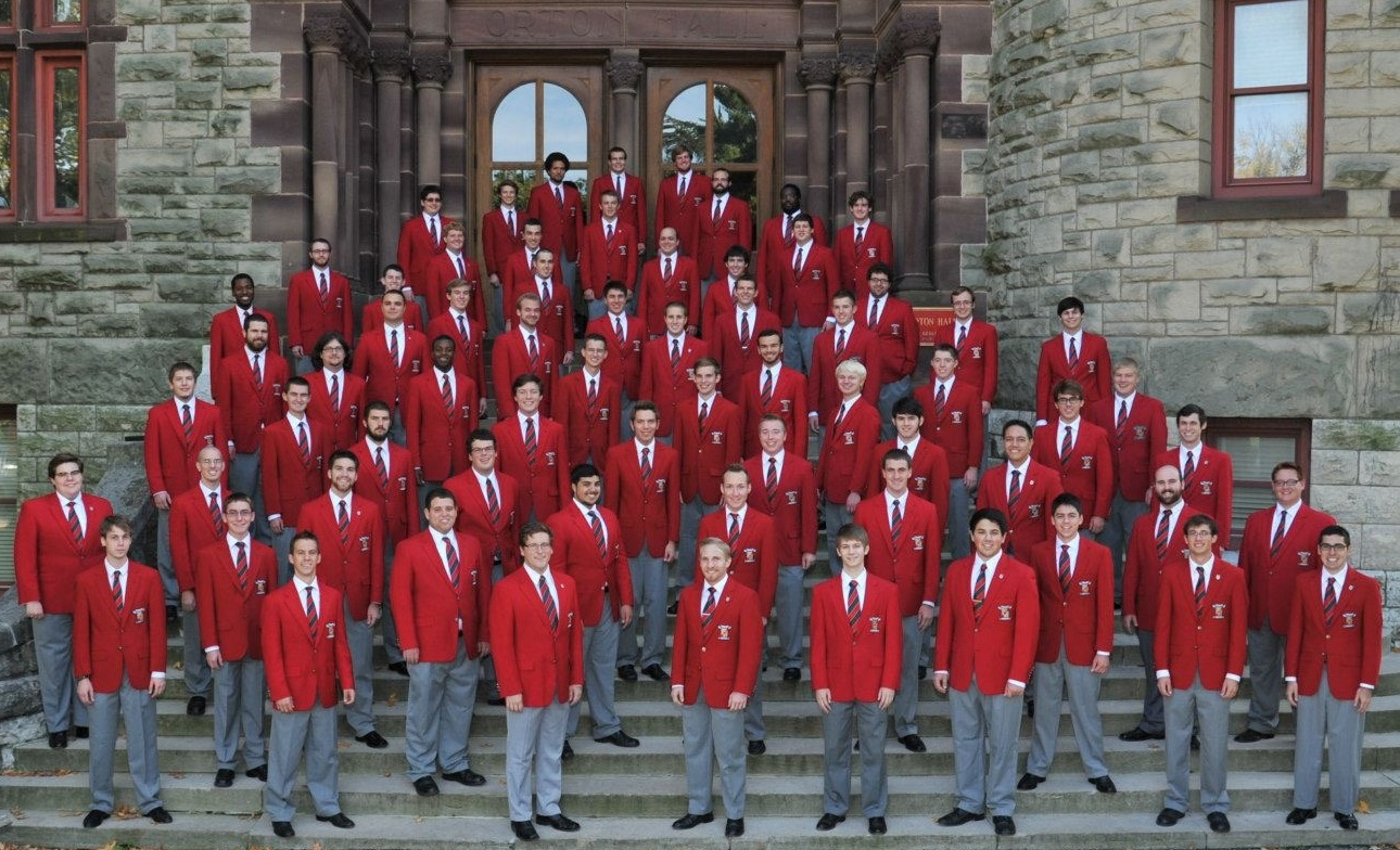 This is a group photograph of the Ohio State University Men's Glee Club from the 2012-2013 school year.